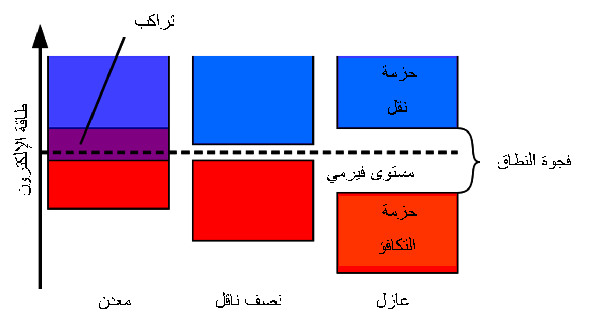 Comparison of the electronic band structures of metals, semiconductors and insulators.